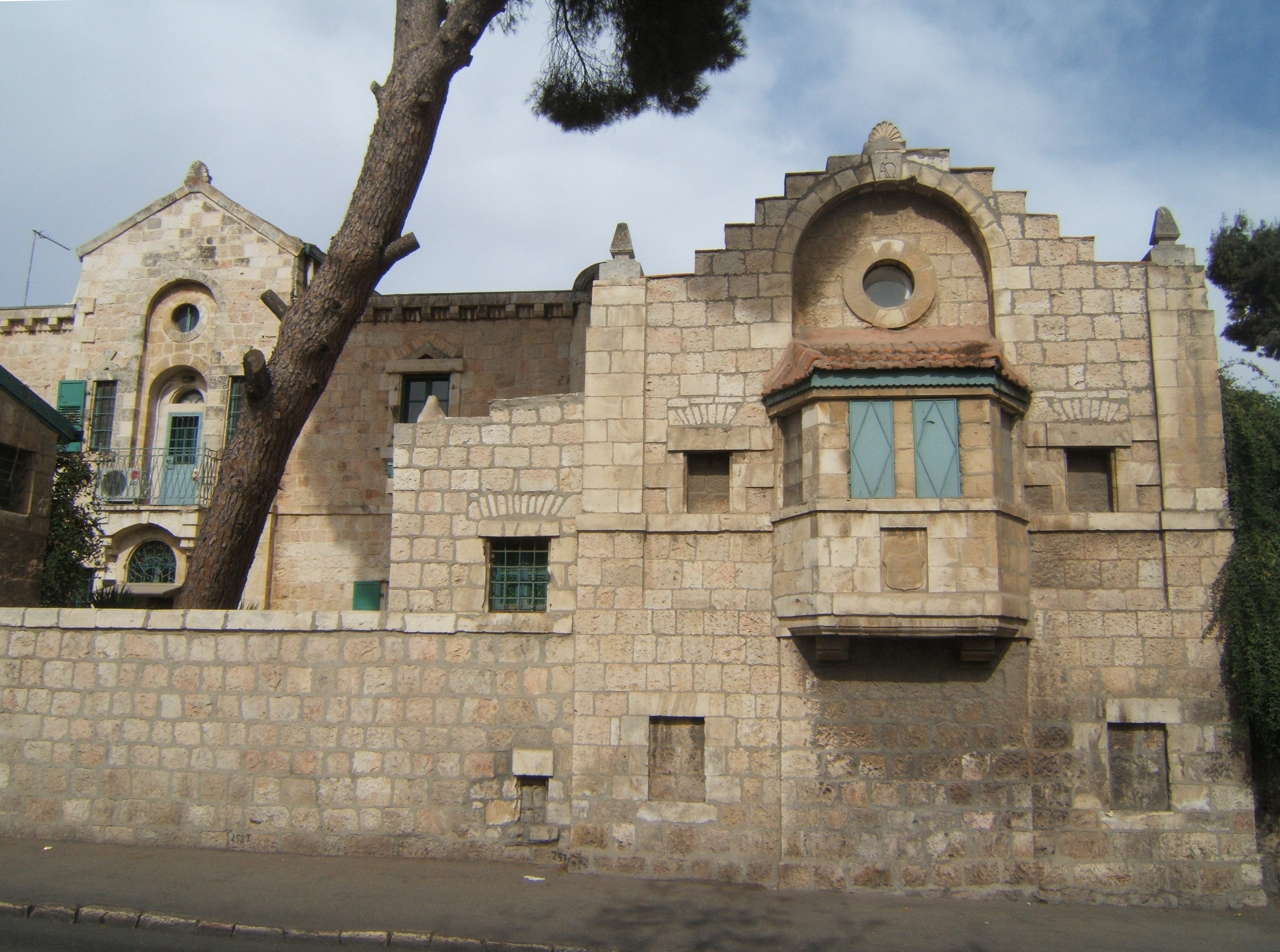 Thabor House, Jerusalem